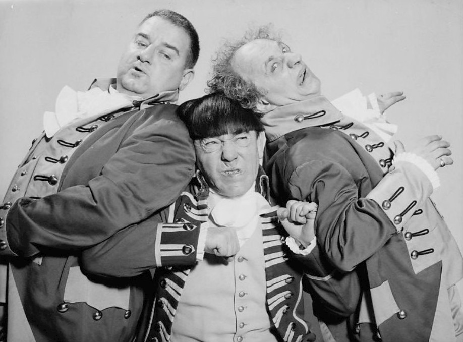 Photo of the comedy team The Three Stooges. From left-Joe DeRita (Curly Joe), Moe Howard (Moe), and Larry Fine (Larry). This photo was taken as the Stooges made ready for a second appearance on Steve Allen's talk program (later became the Tonight Show). The Stooges became popular with children beginning in circa 1958-1959, when Columbia Pictures released many of their old short films as packages for television. In 1957, the team was let go by Columbia and suddenly became in demand after the films started airing as children's programming. Howard and Fine had to hire Joe DeRita as Curly Joe; Joe Besser, who had worked with them until the layoff at Columbia. was no longer able to be a part of the trio.